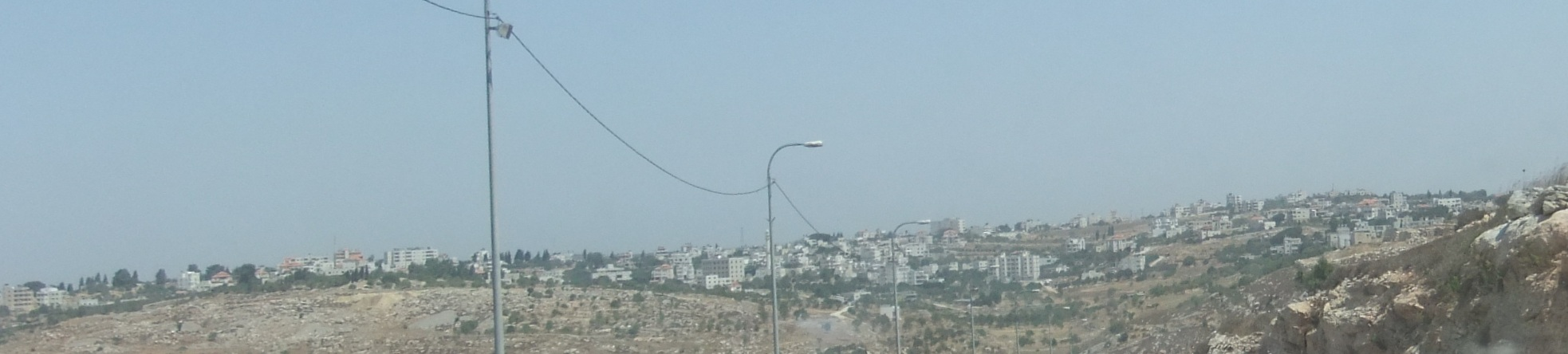 Beitin as viewed from the road to Beit El